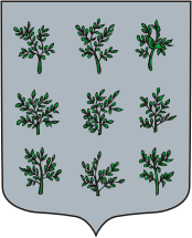 Bogoroditsk (Tula oblast), coat of arms (1778)